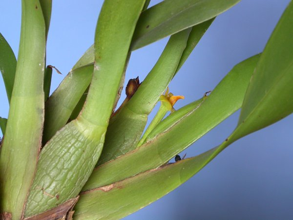 Heterotaxis crassifolia